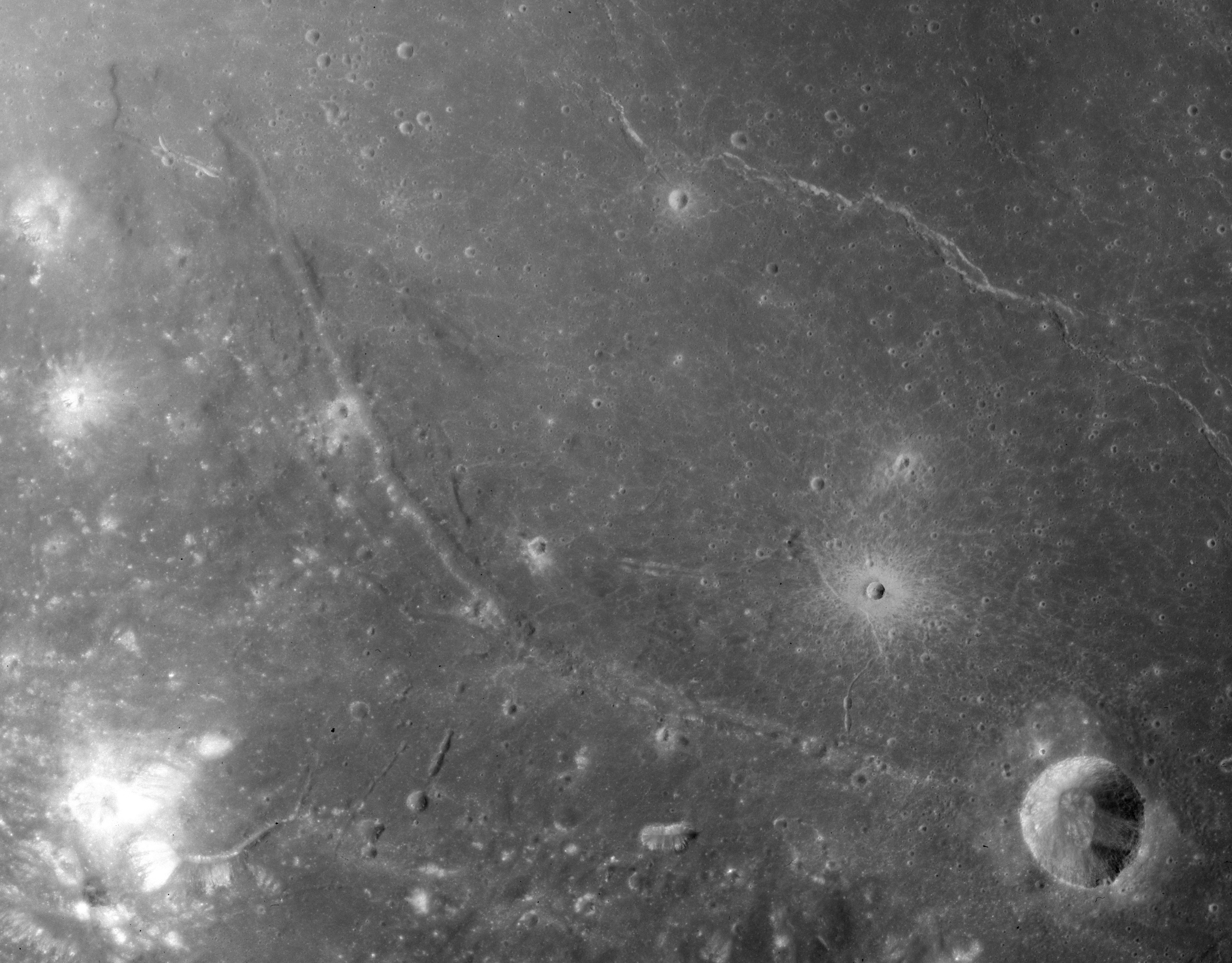 The curved line from lower right to upper left is Rima Sulpicius Gallus, and the crater in lower right is Sulpicius Gallus itself. Southwestern Mare Serenitatis, on the moon. Camera Altitude is 112 km, Sun Elevation is 45° (from right).